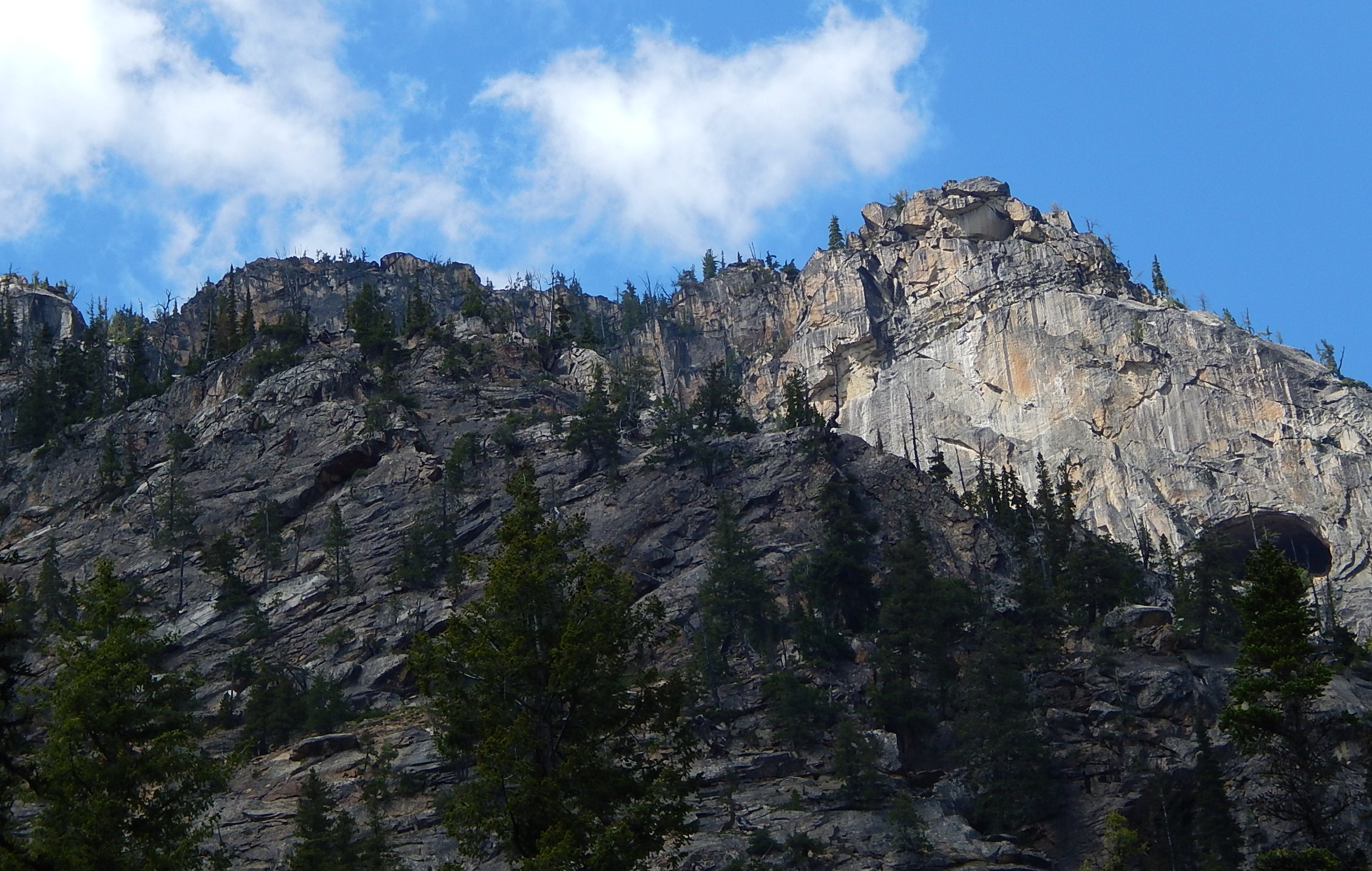 Constitution Crags in North Cascades, Washington state